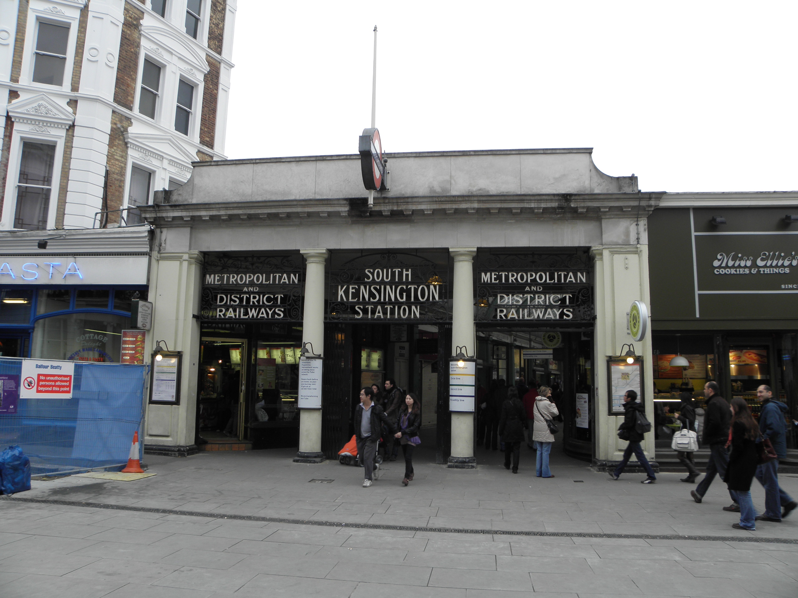 South Kensington tube station northern entrance in April 2010, after pedestrianisation works outside the station.